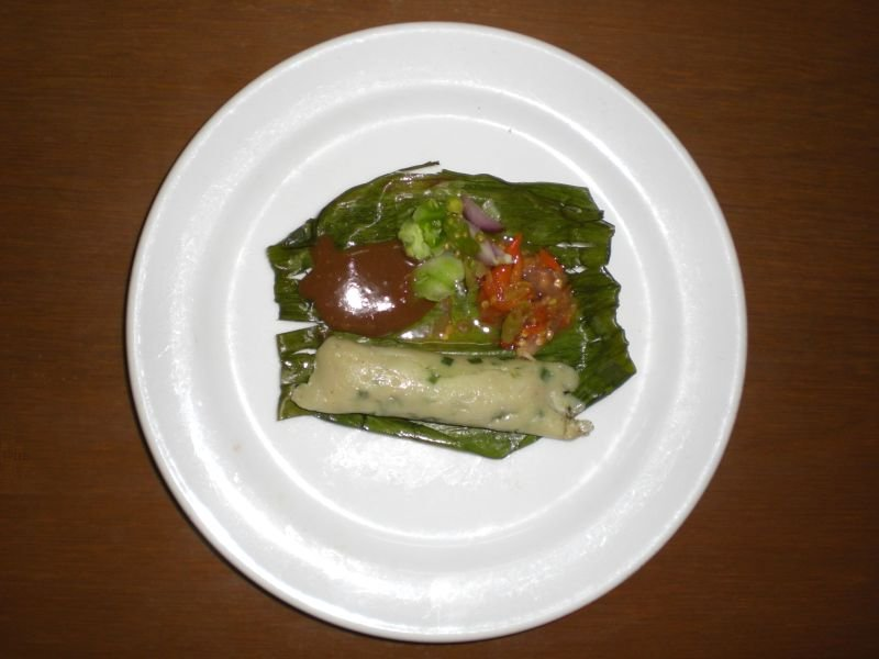 Indonesian dish Otak-Otak in Makassar